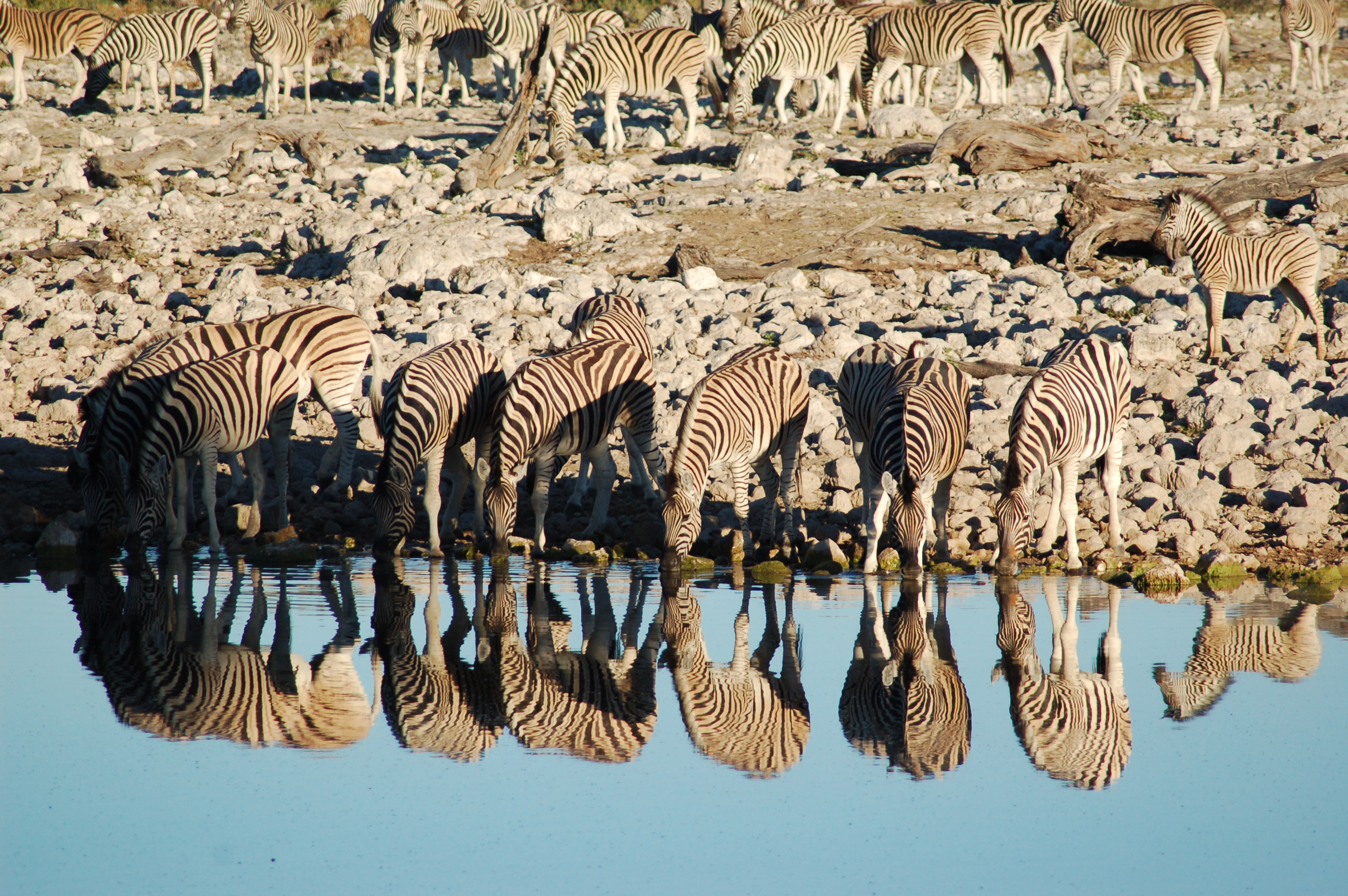 Etosha National Park, Namibia